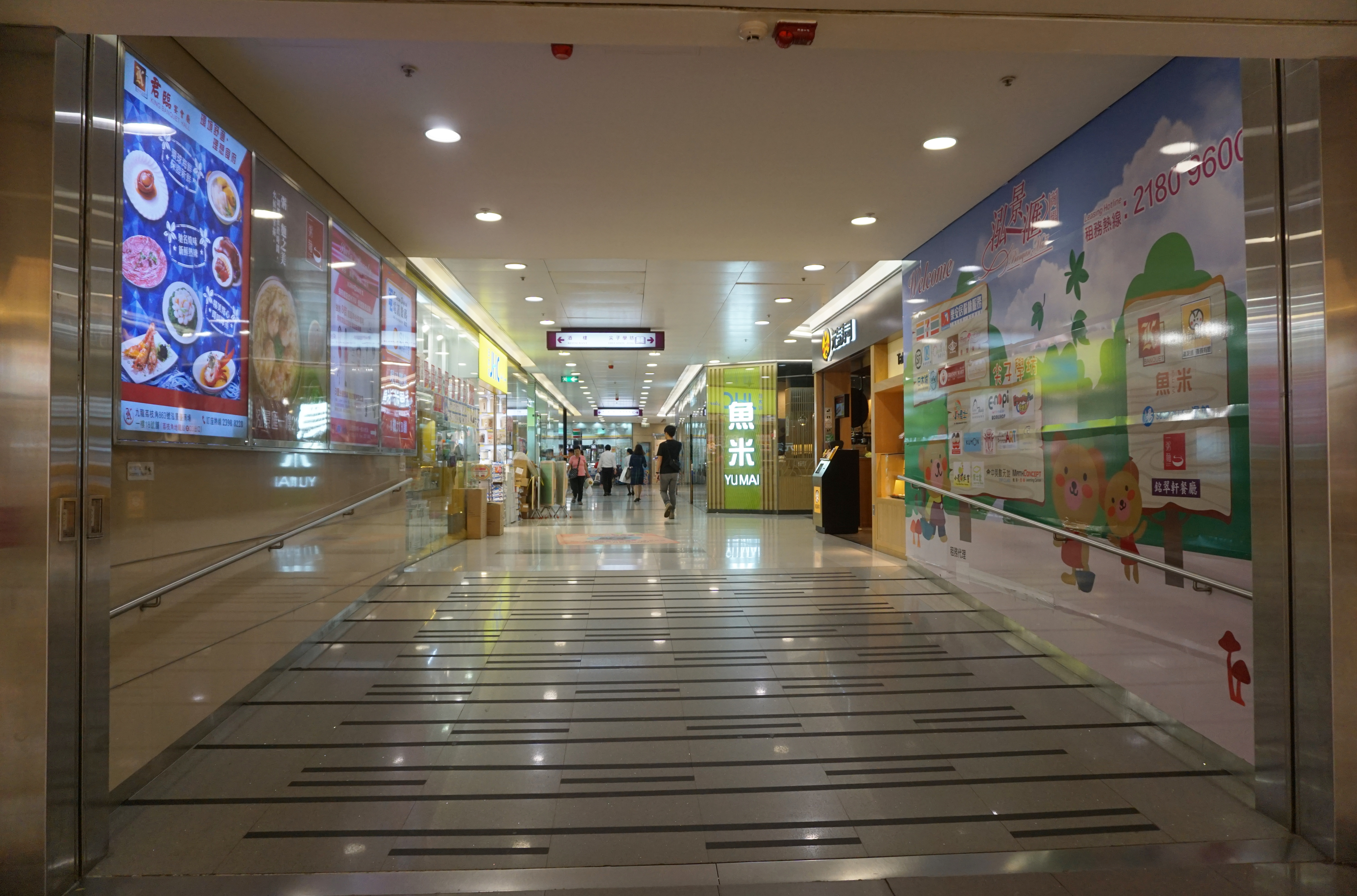 Banyan Mall in Lai Chi Kok, Hong Kong.